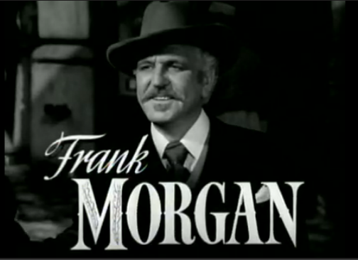 Frank Morgan in The Vanishing Virginian (1942).